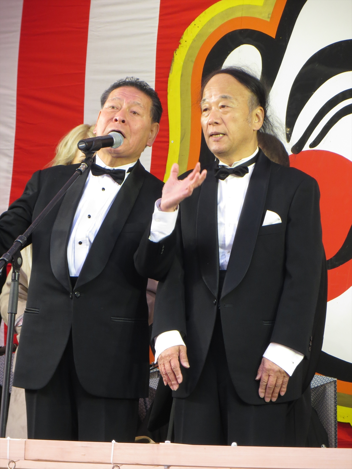 Japanese manzai stand-up comedians Kanata (left) and Haruka (right) Unabara